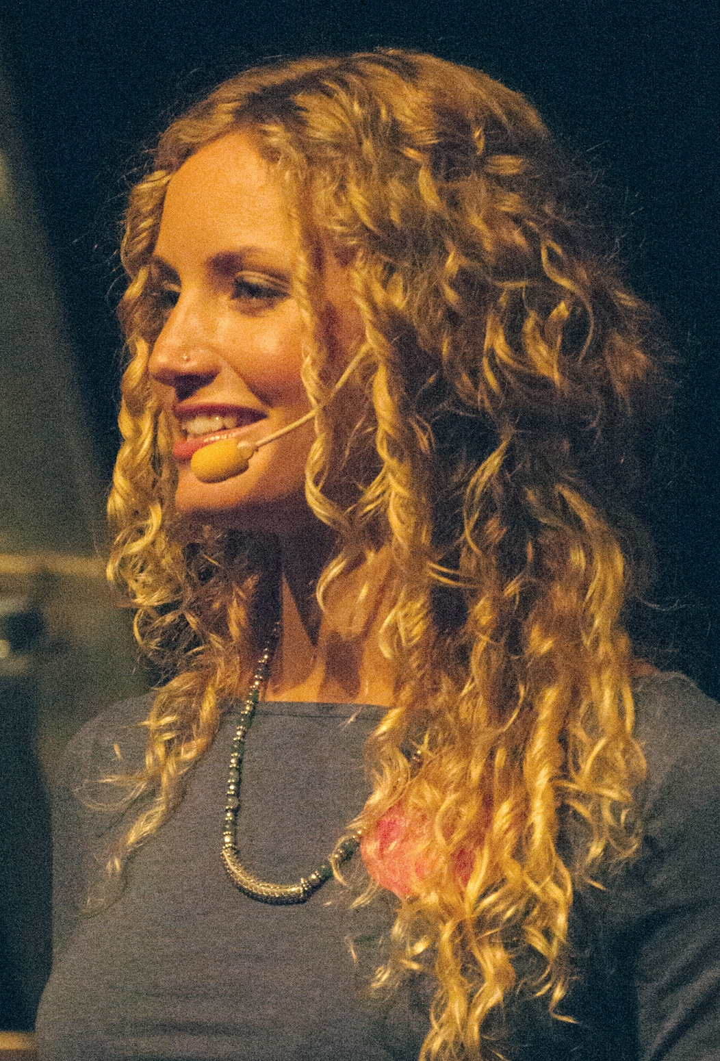 The Conference 2013 - Opening Keynote Presentation by Suzannah Lipscomb